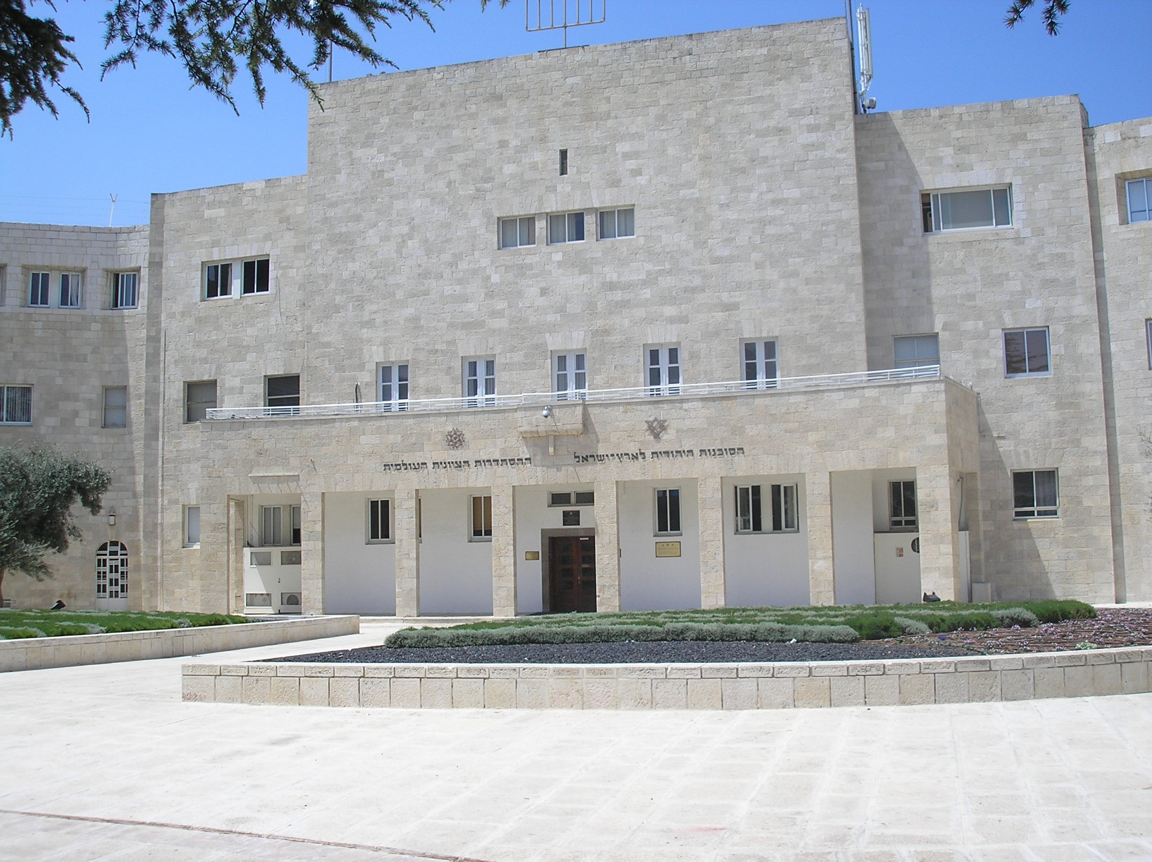 Binyan Hamosadot Haleumiyim - The National Institutions House, Rehavia, Jerusalem